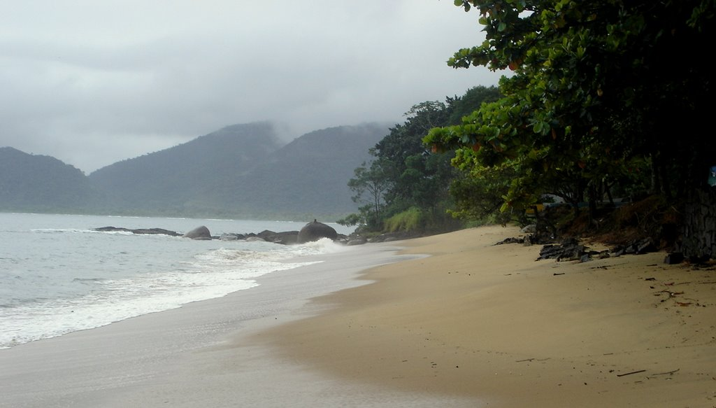 Picinguaba, Ubatuba, São Paulo, Brazil.